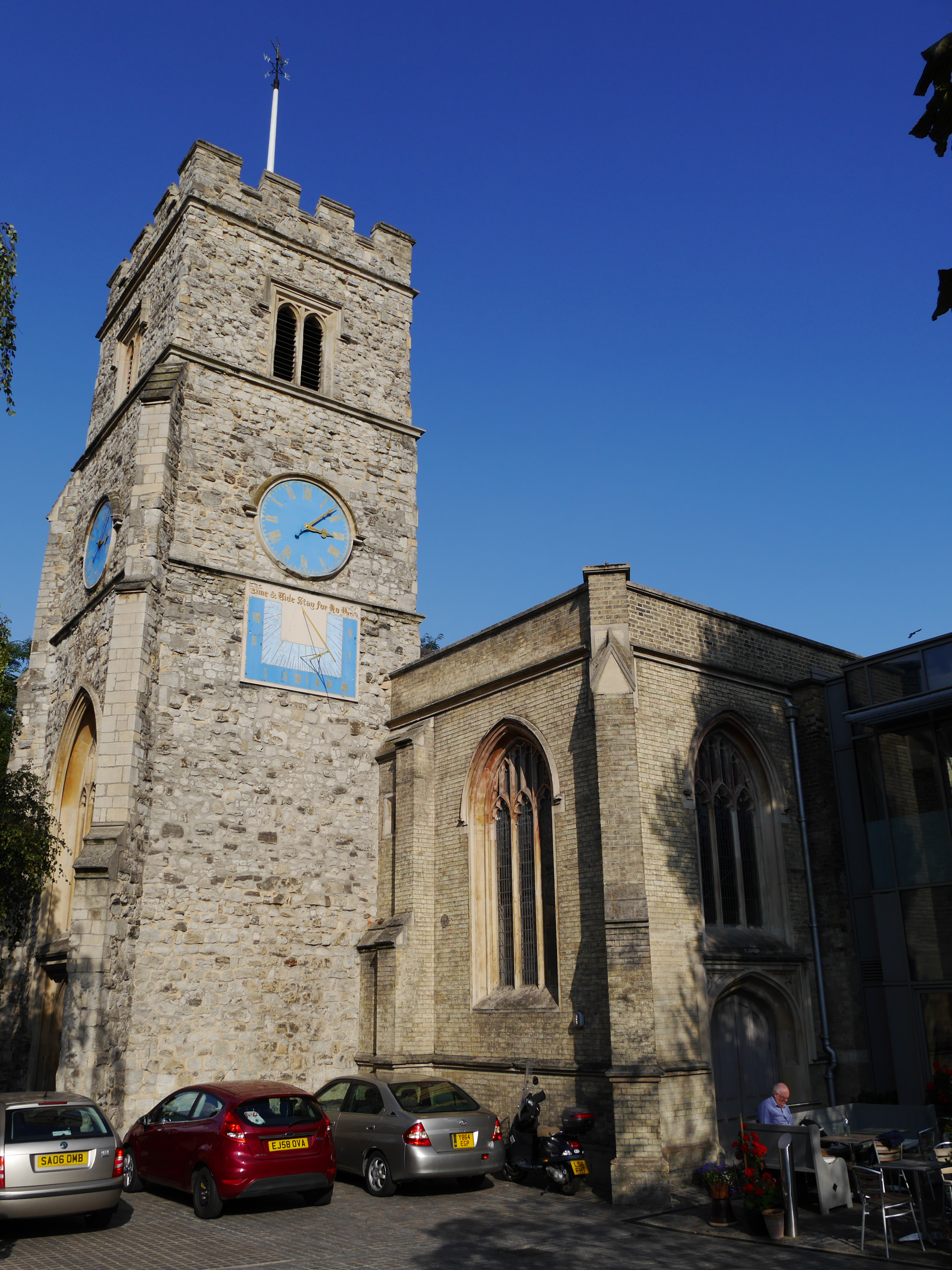 St Mary's, Putney Wikidata has entry Q7590181 with data related to this building.